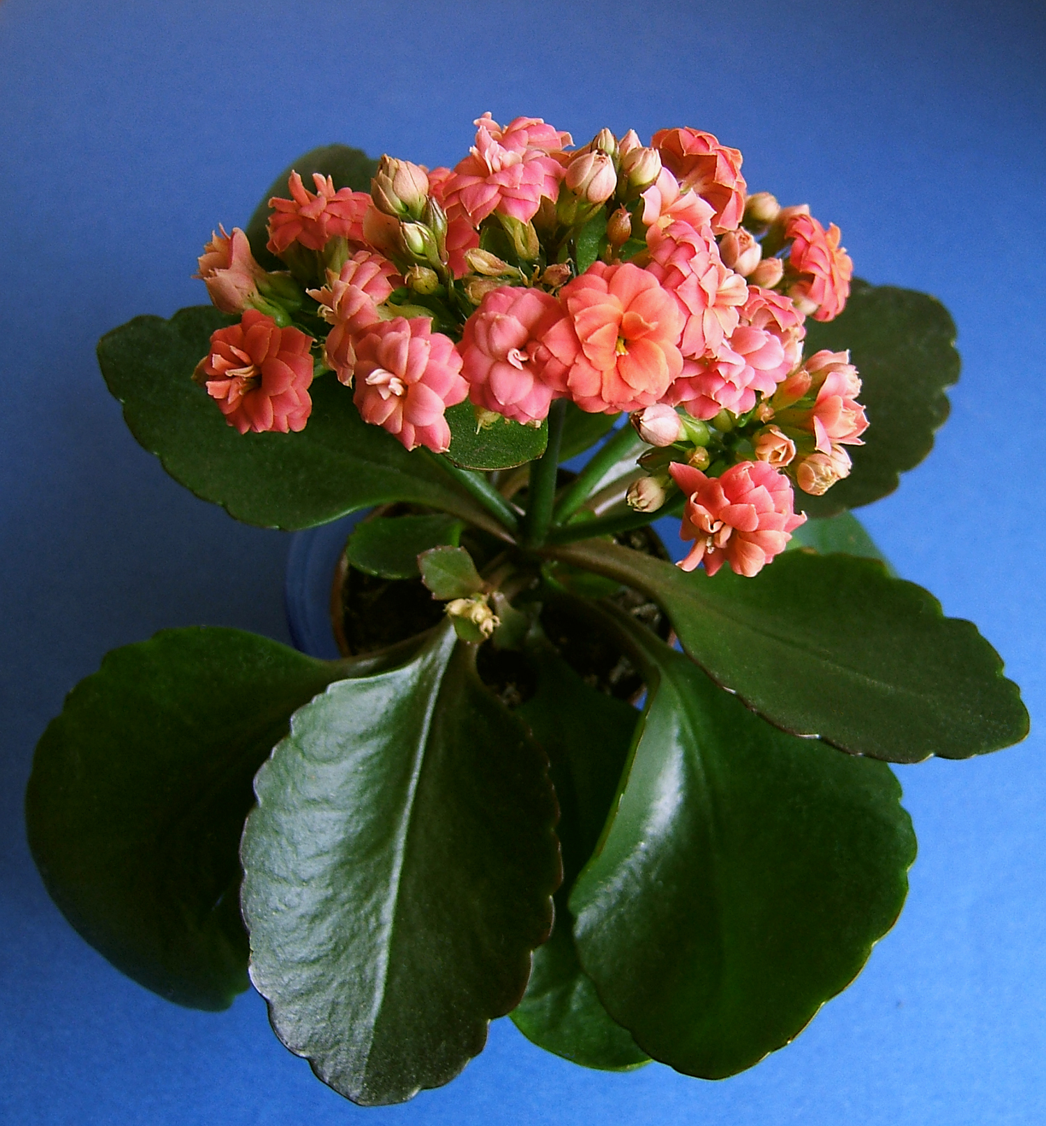 Flaming Katy